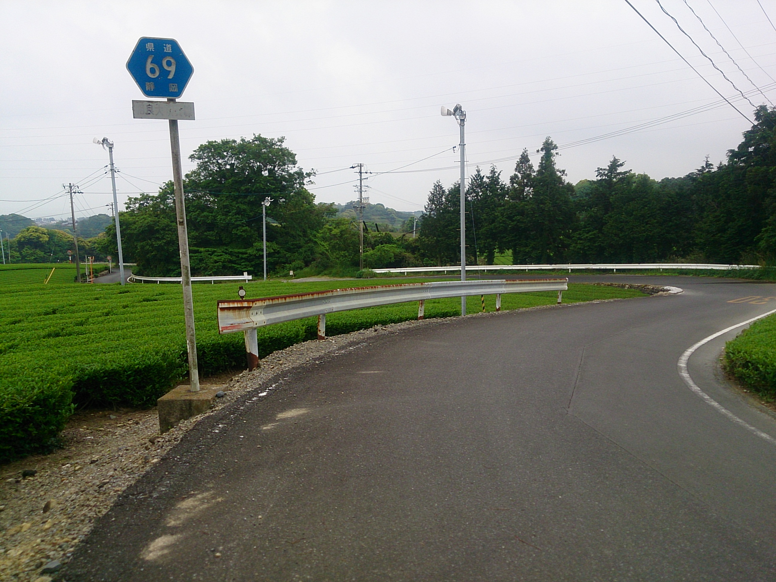 Shizuoka Prefectural Route 69, Makinohara, Shizuoka